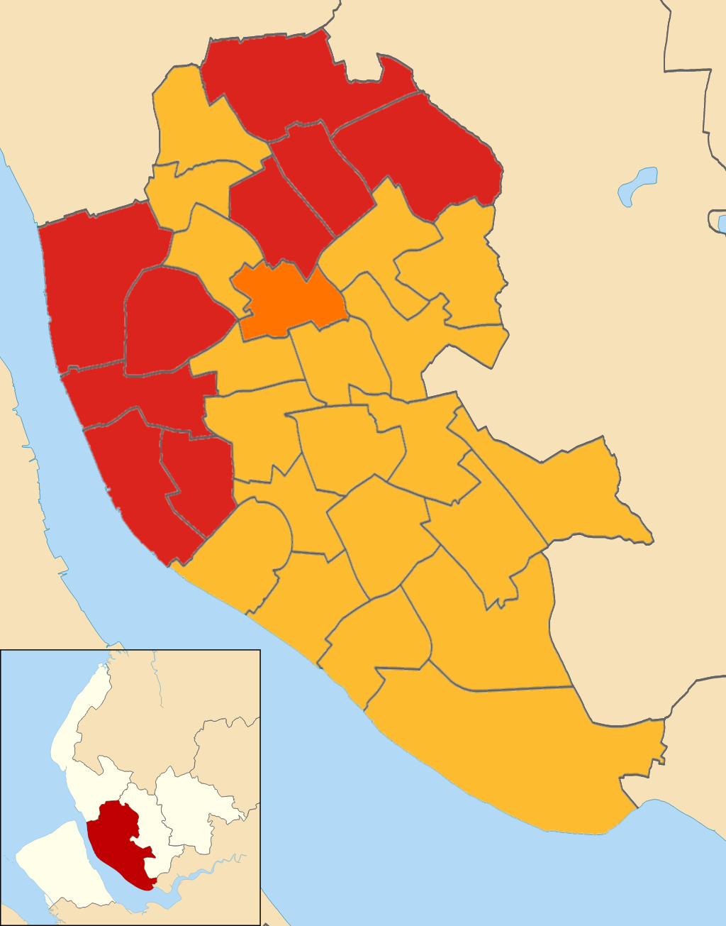 Results of the 2004 local elections in Liverpool Colours: Labour Liberal Democrat Liberal Party